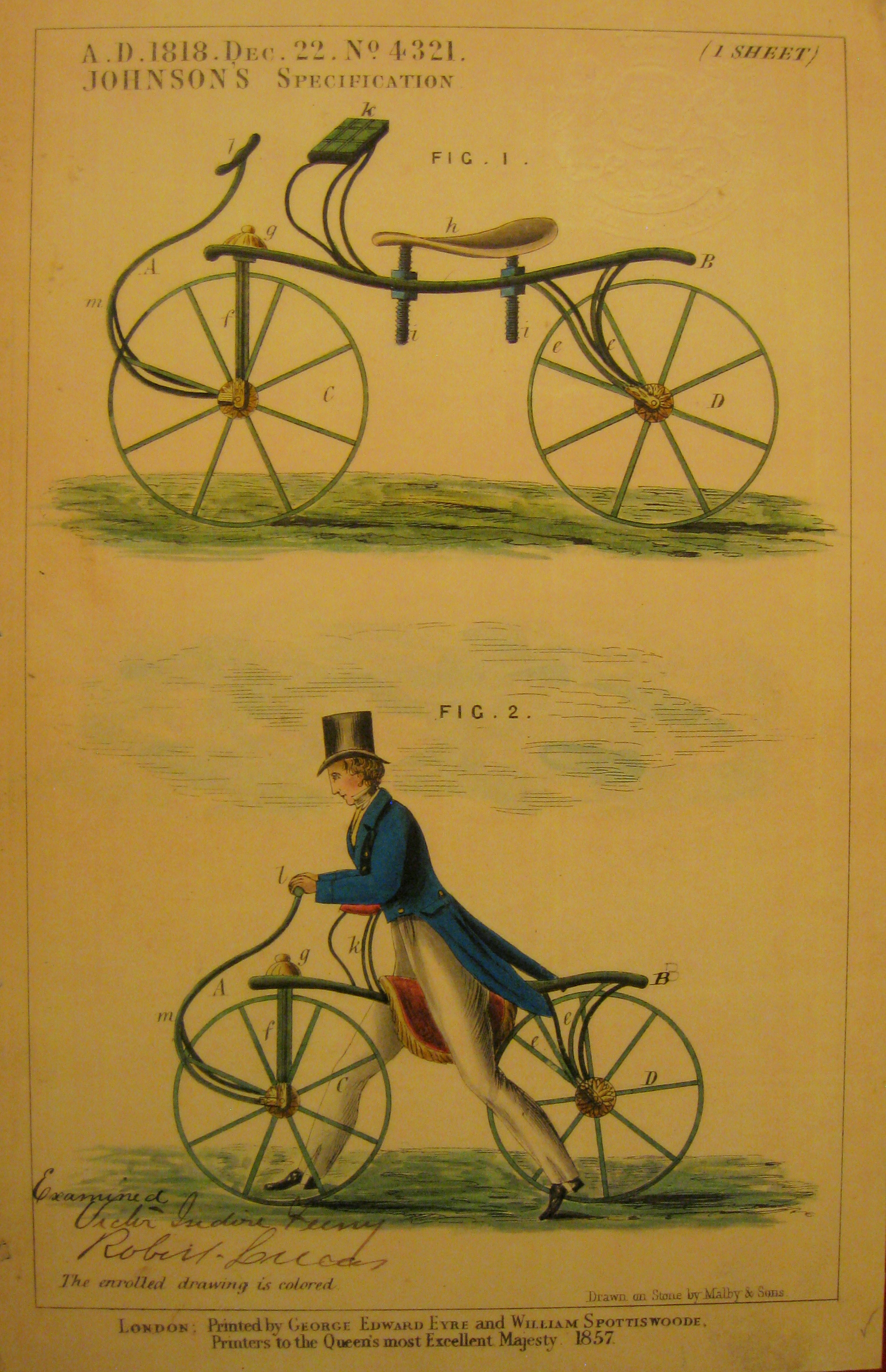 Johnson's specification, 1818, printed in 1857 by George Edward Eyre and William Spottiswoode.